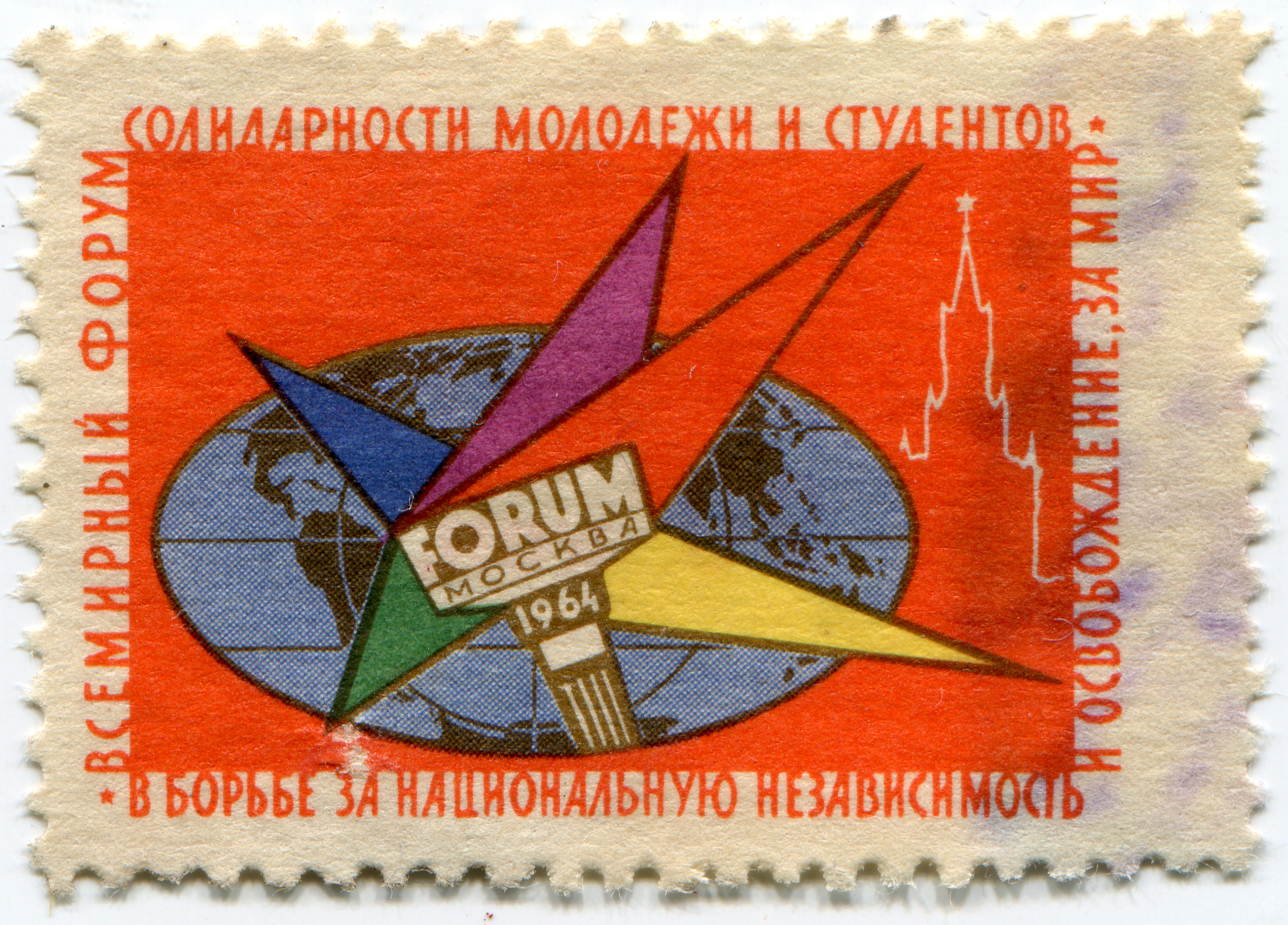 Stamps of the Soviet Union, 1964 year. World Forum of Youth and Student Solidarity.